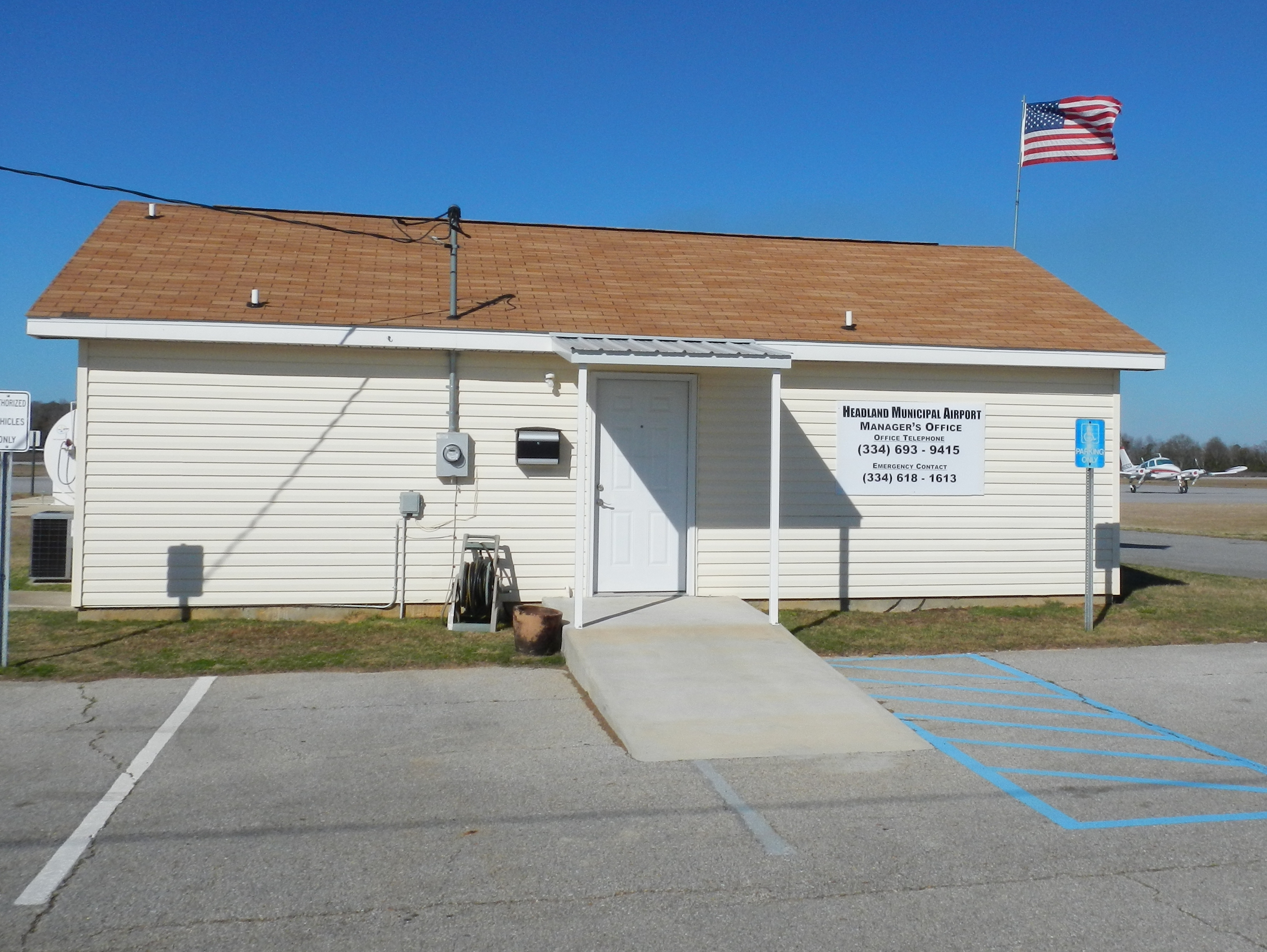 This is a photograph of Headland Municipal Airport in Headland, AL.